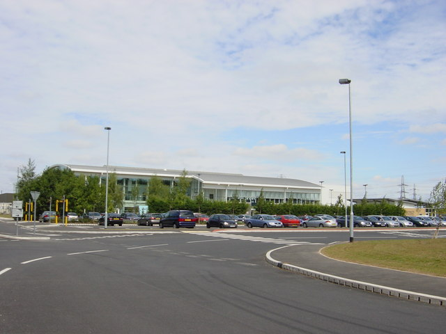 Capenhurst Technology Park